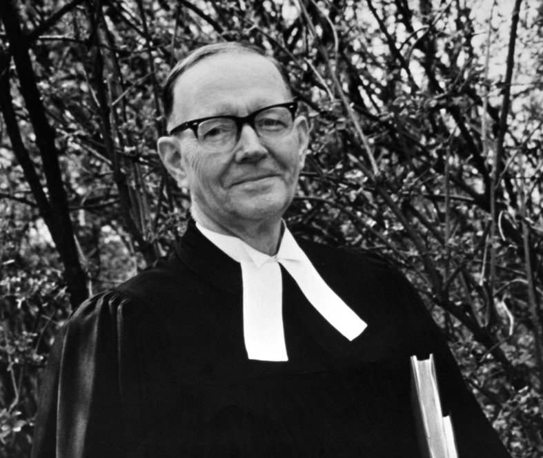 The picture shows the German theologian and missionary scholars Dr. Paul Gäbler on the date 9. April 1972.